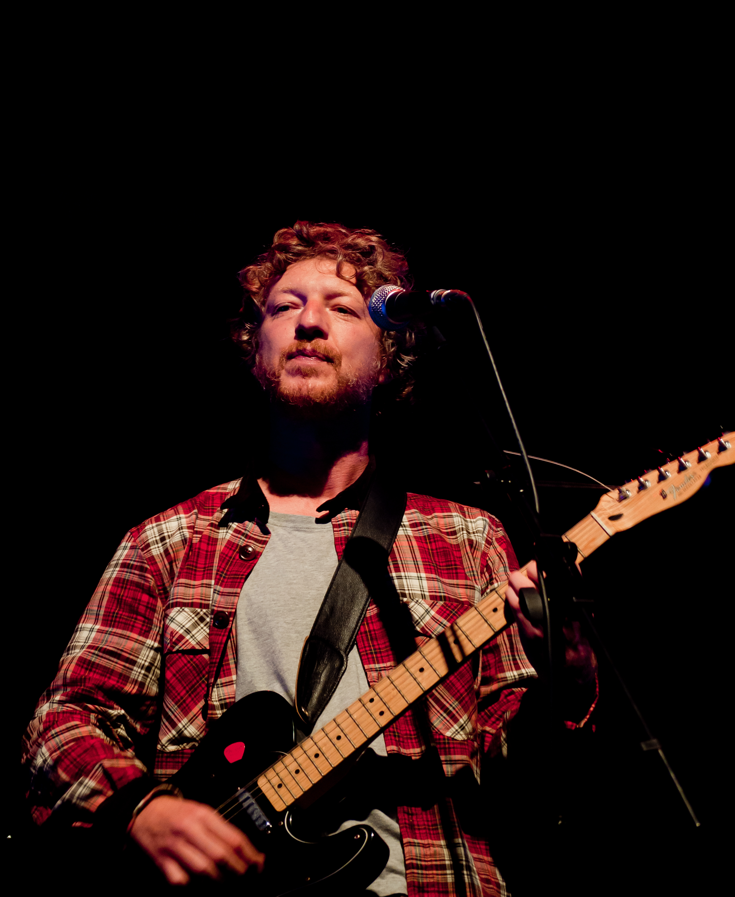 John Power, James Mcvey and Hillsborough justice Committee concert, Olympia, Liverpool.